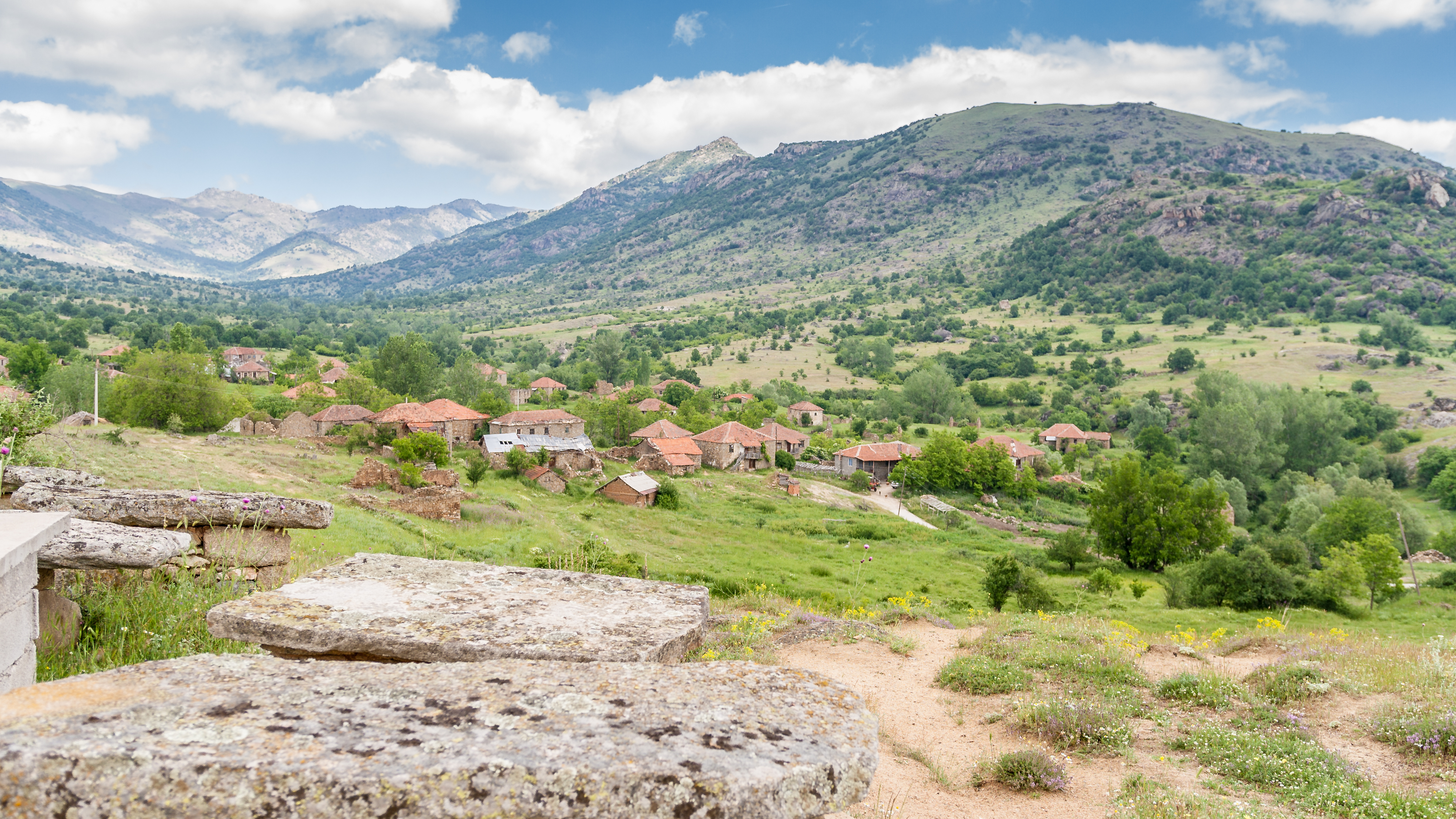 Panoramic photography of the village Kalen